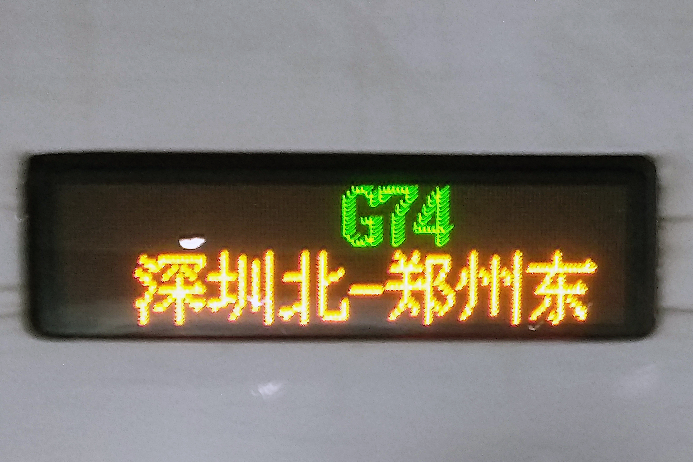 Train G74 from Shenzhen North to Zhengzhou East. The train is operated by a CRH380AL which seems to be kind of "old".